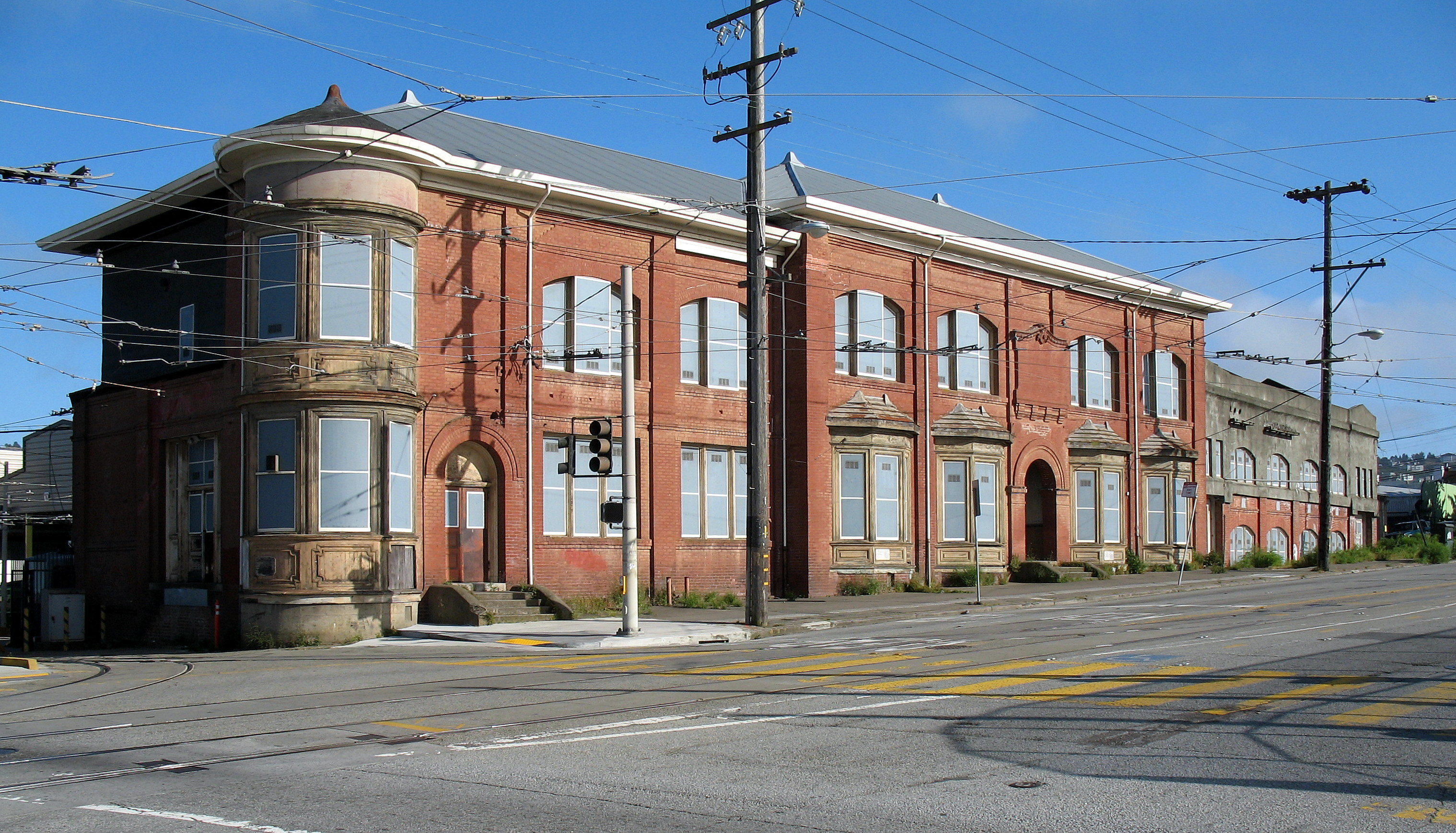 National Register of Historic Places listings in San Francisco, California. Geneva Office Building and Power House, 2301 San Jose Ave., San Francisco, California